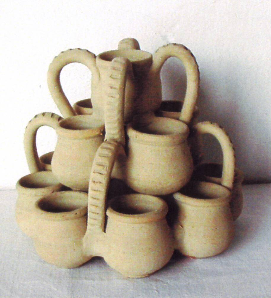 Model of grocer's, original clay of the traditional potteries in the town of Aledo (Murcia, Spain). Set of containers to deposit different spices in the kitchen and tableware. National ceramics museum in Chinchilla de Montearagón (Albacete).